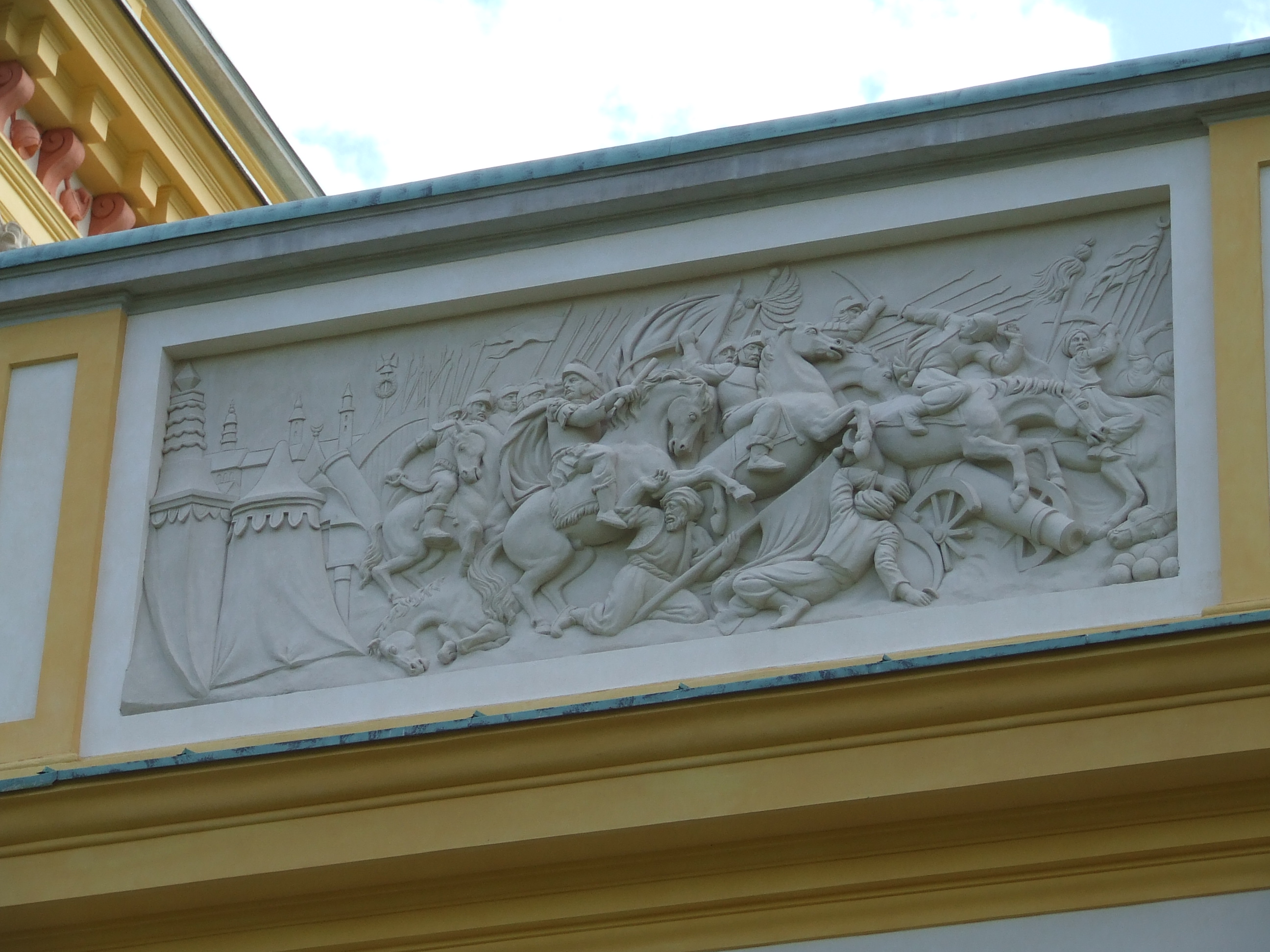 Battle of Vienna in 1683, emboss on the wall of Wilanów pallce in Warsaw